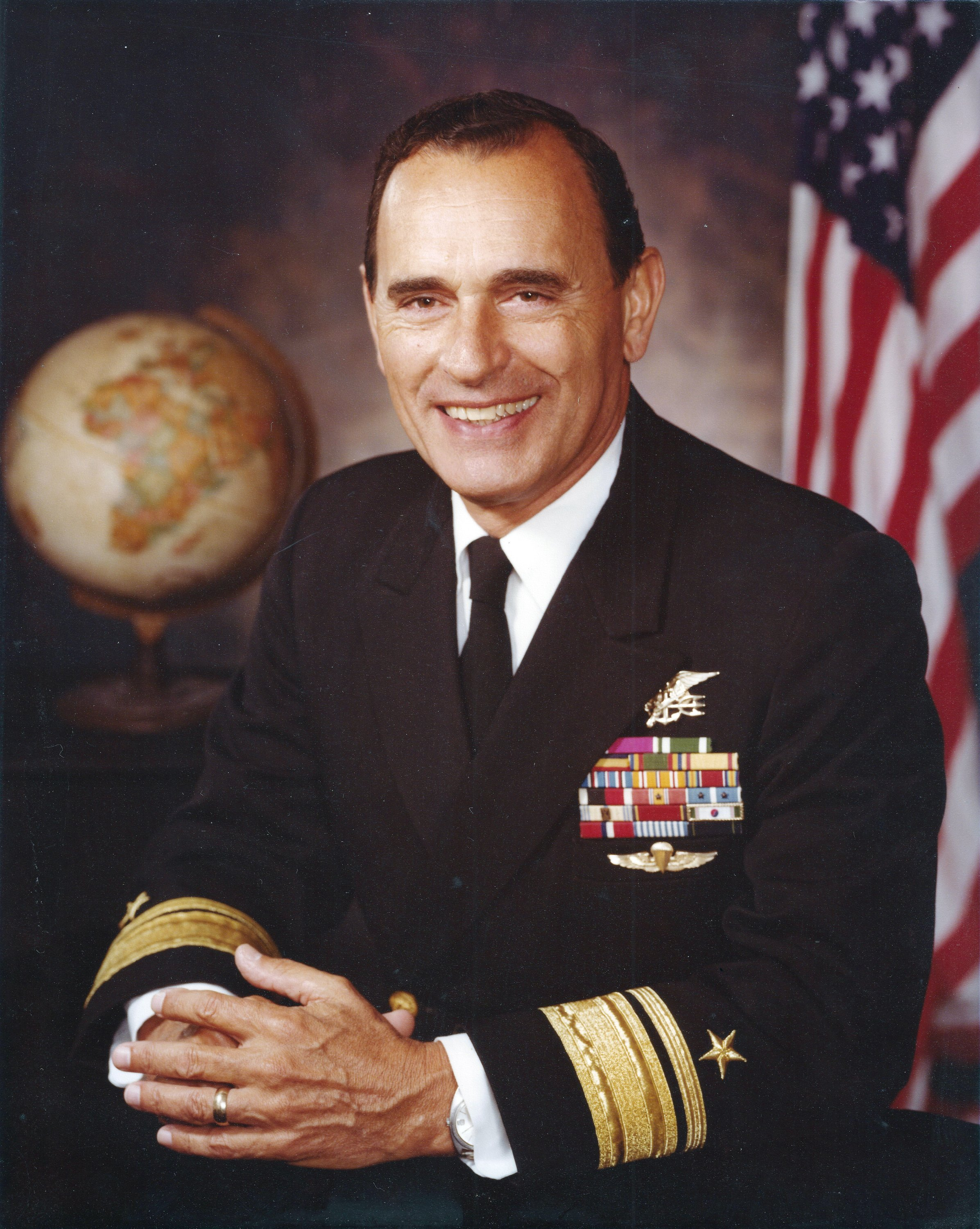 This circa 1975 portrait by the U.S. Navy shows Adm. Richard "Dick" Lyon. Lyon was the first Navy SEAL to rise to the rank of admiral. He served four decades in the Navy, including World War II and the Korean War. (U.S. Navy via AP)